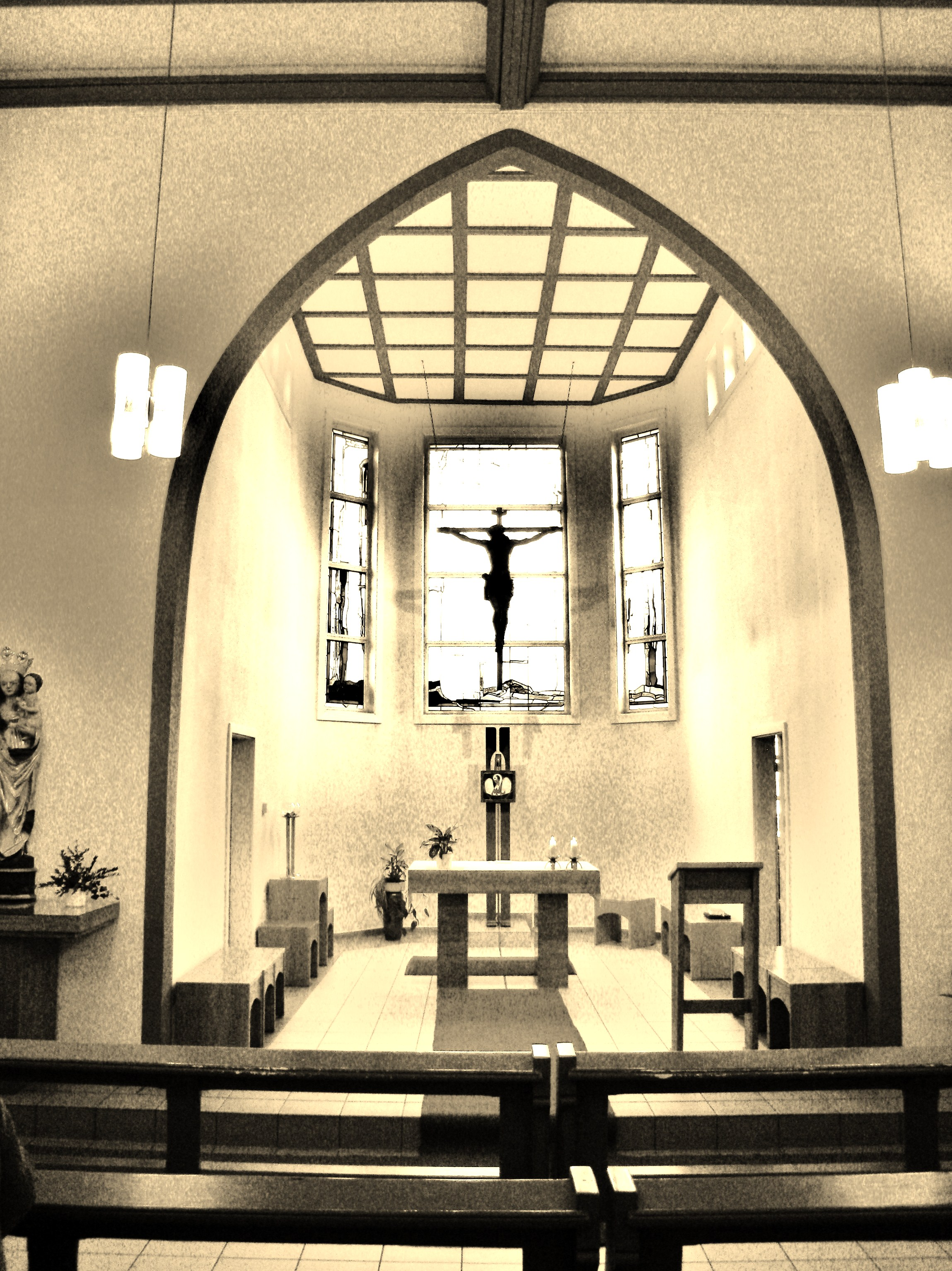 Elisabethkapelle Arnstadt, Wachsenburgallee 16